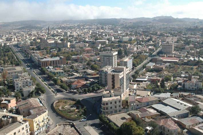 Asmara panorama, Eritrea